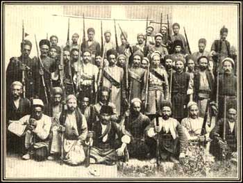 Iranian Constitutional Revolution Revolutionary Fighters of Tabriz The two men in the center are Sattar Khan and Bagher Khan.